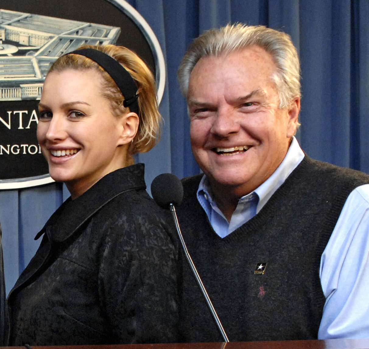 actors Alice Evans and Peter Jason during a tour of the Pentagon.